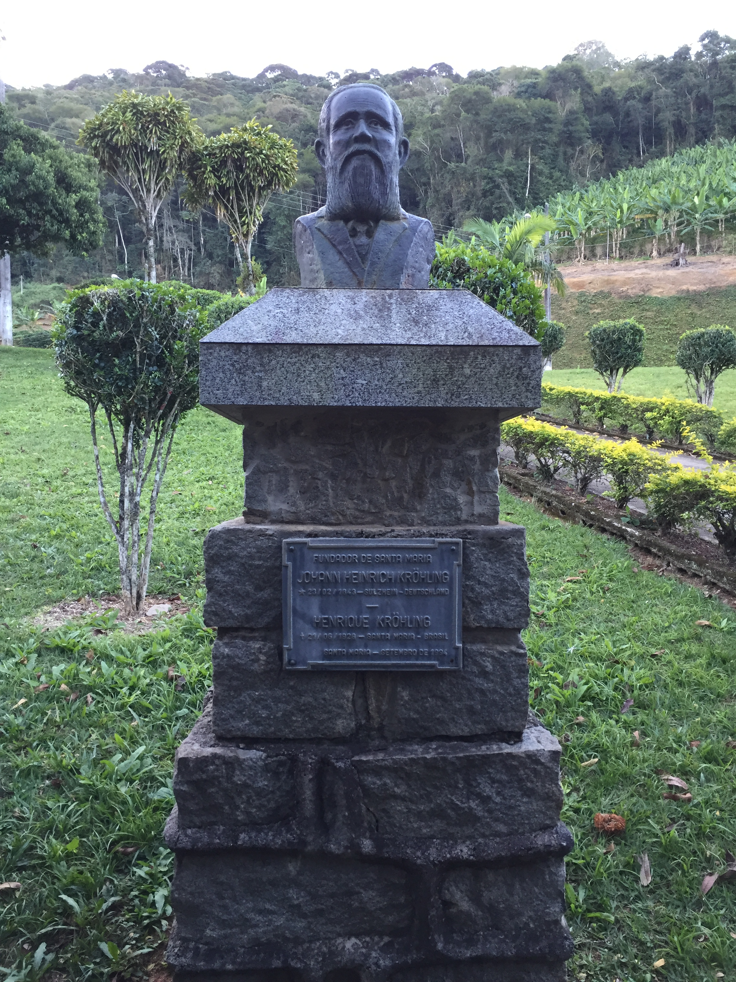 Monument honoring Johann Heinrich Kröhling (1843-1928), the founder of the district of Santa Maria.